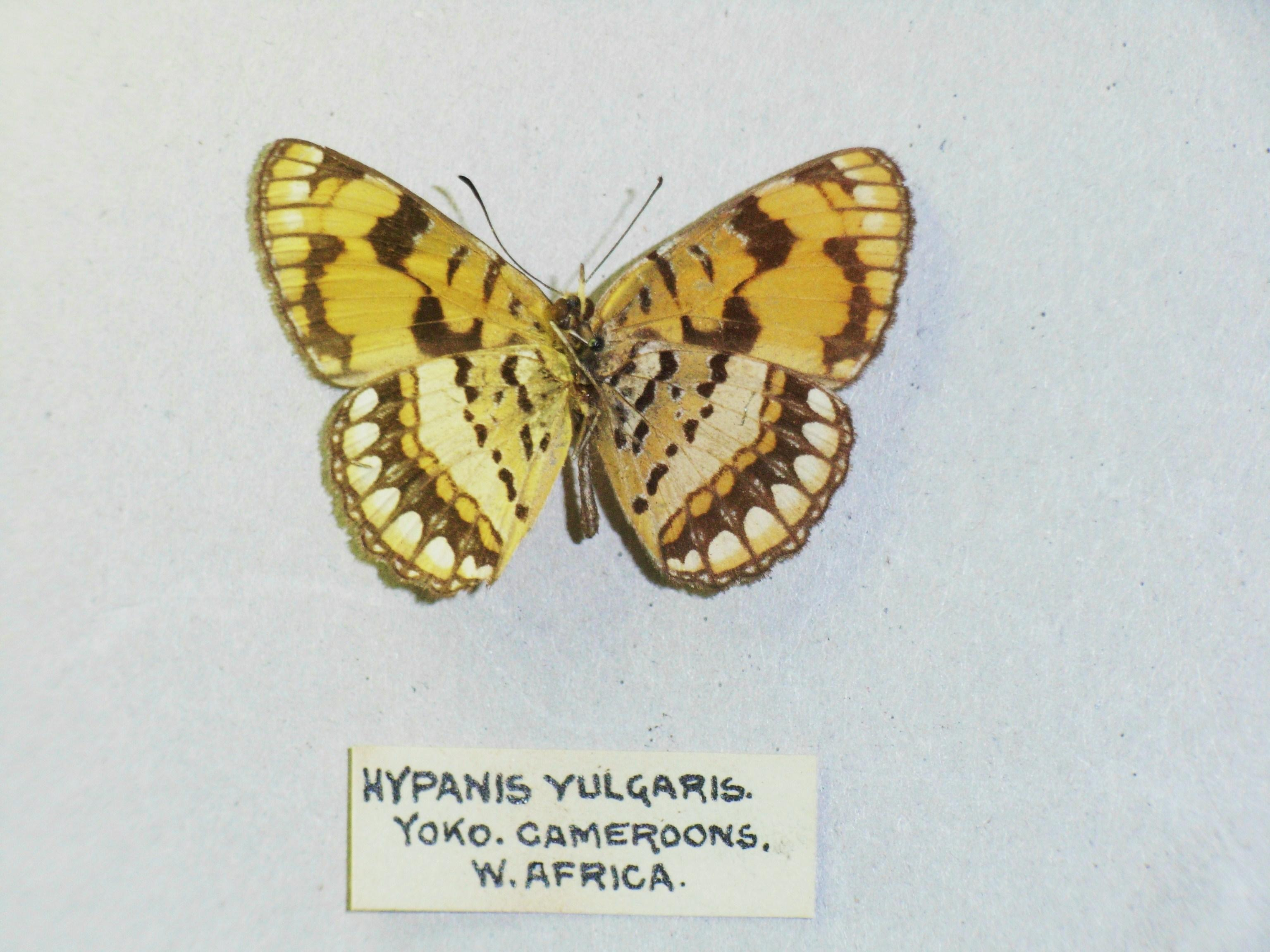 Hyparis vulgaris:Byblinae:Nymphalidae Uns